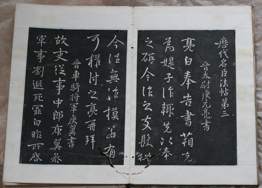 Rubbing of Chunhua ge tie (opening part): later editon(17th century) of Original issue(ACE992), China